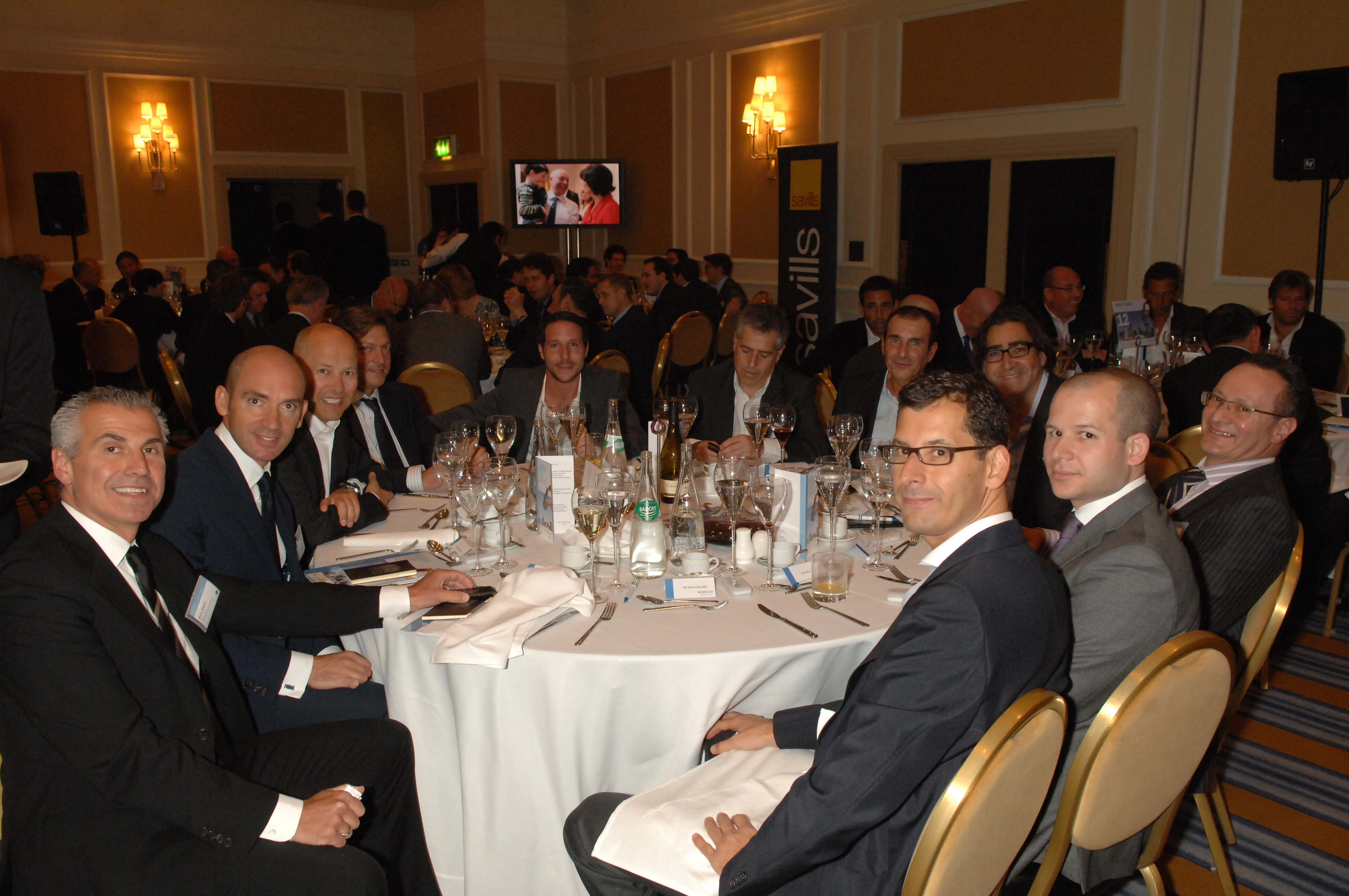 A group at one of Norwood's corporate fundraising events.